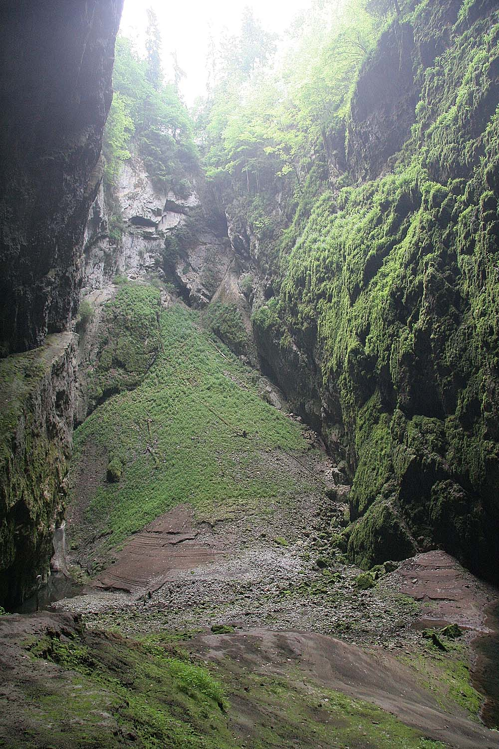 View from exit of Punkva Cave. Moravian Karst.